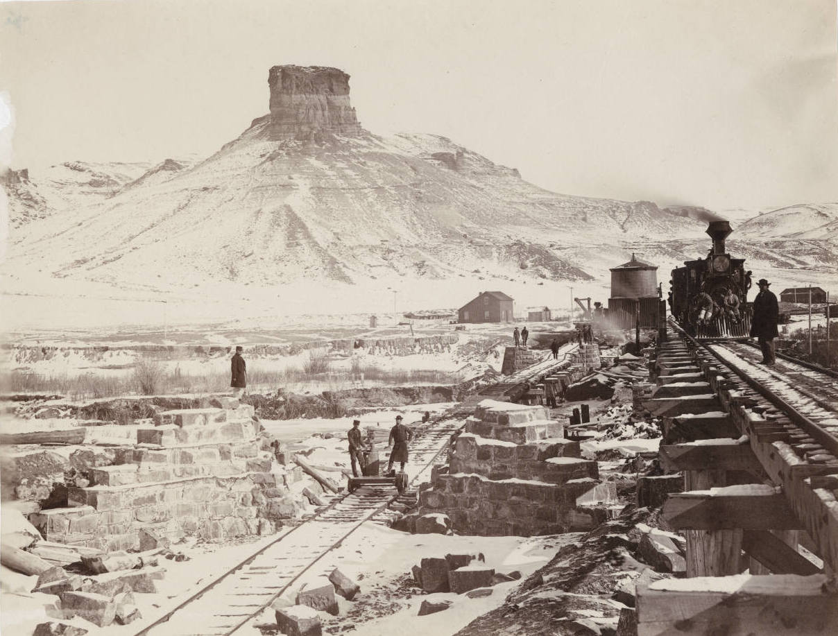 "Temporary and permanent bridges and Citadel Rock, Green River," black and white photograph by the American photographer Andrew J. Russell. 28.2 cm x 35.5 cm. Collection of photographs taken during construction of Union Pacific Railroad, 1864-1869. Yale Collection of Western Americana, Beinecke Rare Book and Manuscript Library, Yale University, New Haven, Connecticut.